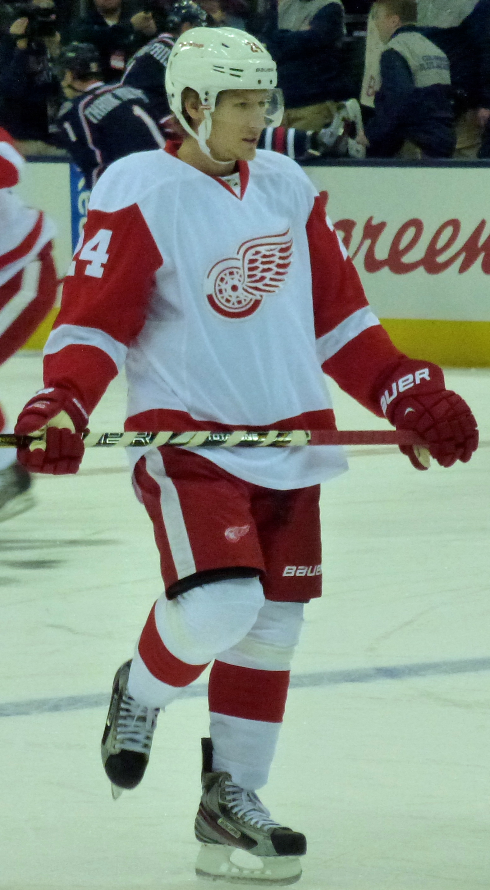 Damien Brunner in warmups before an NHL regular season game against the Columbus Blue Jackets at Nationwide Arena.